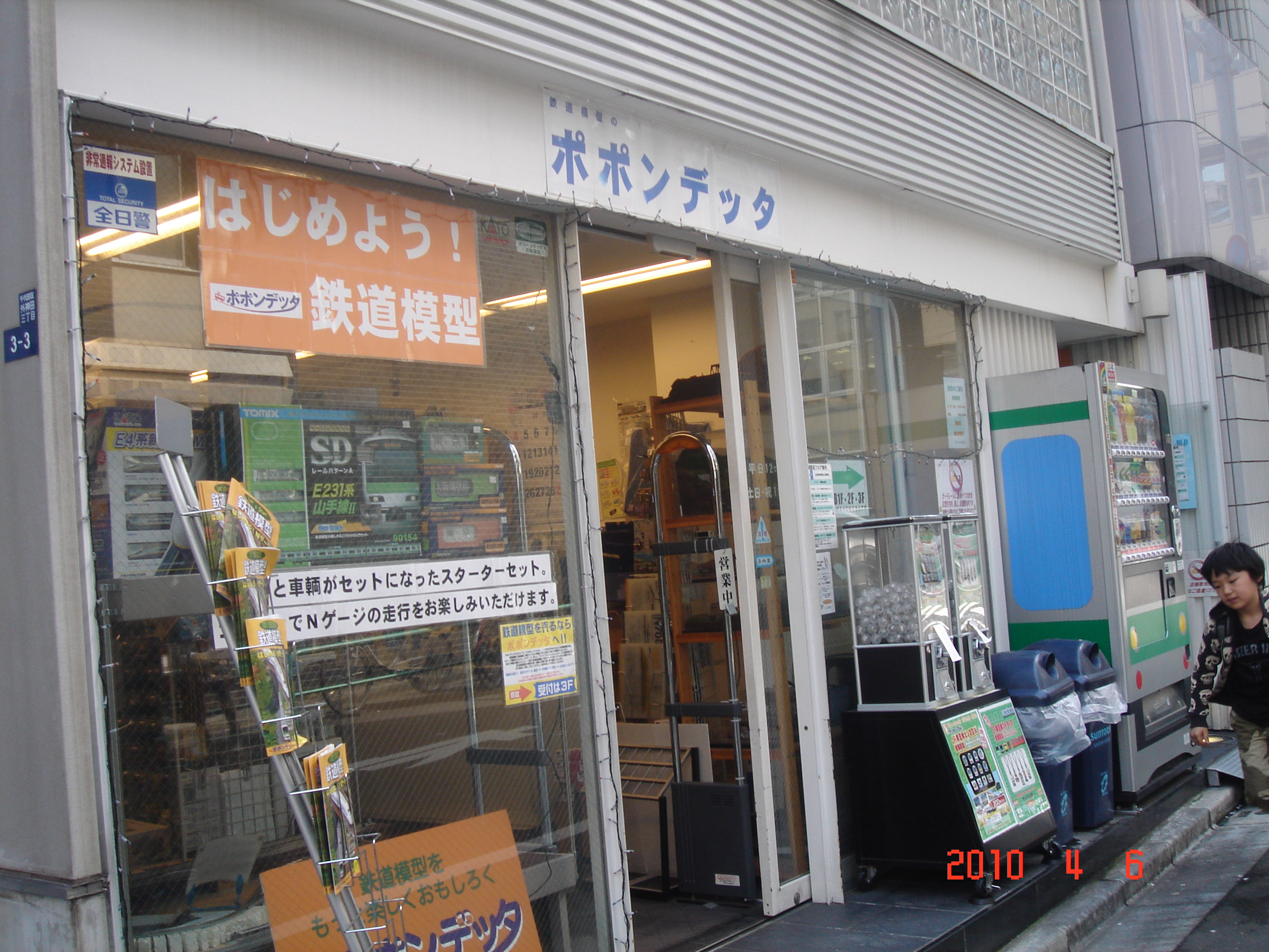 Popondetta Akihabara (Rail Way Bldg., 3-3-3 Sotokanda, Chiyoda, Tokyo)